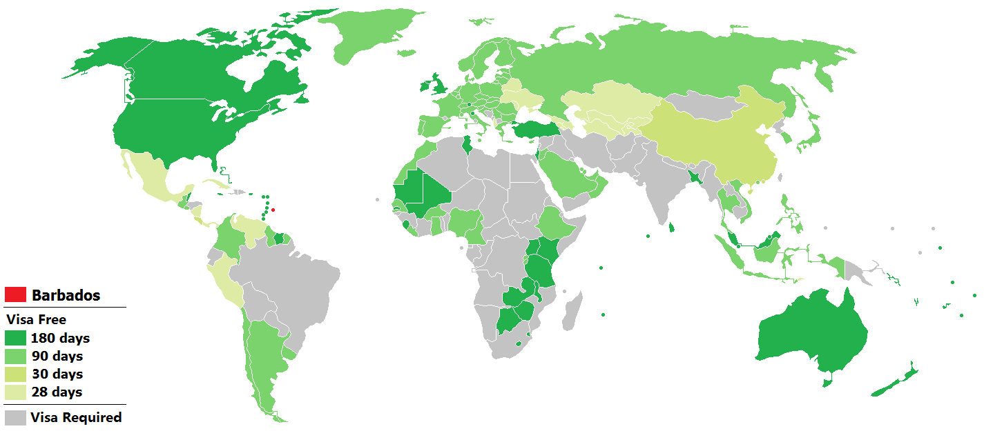 Visa policy of Barbados Barbados Visa-free - 180 days Visa-free - 90 days Visa-free - 30 days Visa-free - 28 days Visa required